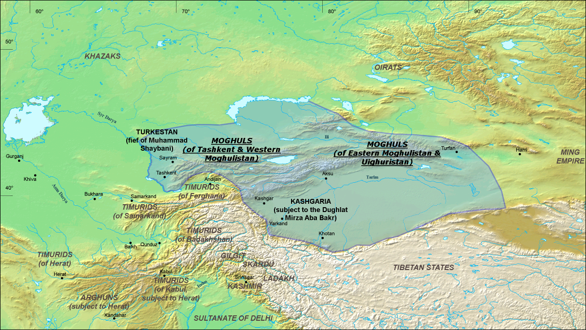 A map of the Moghul Chagatai Khanate in 1490 CE. Note: This map is compressed in vertical direction. Please, expand it about 1.3 times to see it undistorted. References Information for the borders of the Moghul khanate came mostly from these two sources: Mirza Muhammad Haidar. The Tarikh-i-Rashidi (A History of the Moghuls of Central Asia). Translated by Edward Denison Ross, edited by N.Elias. London, 1895. Elias, N. Commentary. 'The Tarikh-i-Rashidi (A History of the Moghuls of Central Asia). By Mirza Muhammad Haidar. Translated by Edward Denison Ross, edited by N. Elias. London, 1895.